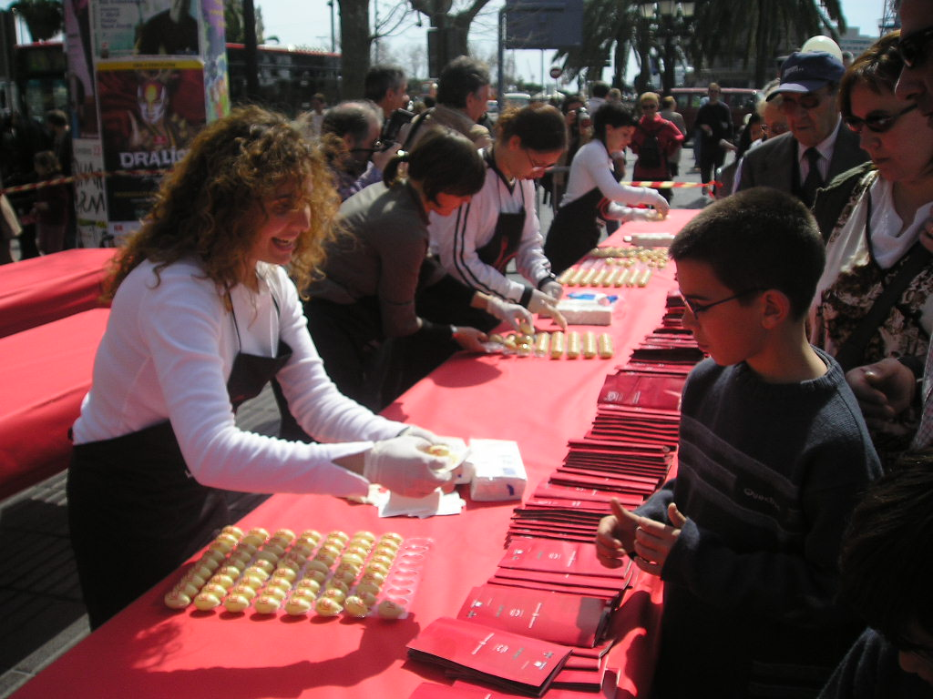 Description: ous de xocolata a l'escultura de Colón, Barcelona 2005 Source: Barcelona Date: 2005 Author: Xesco Permission: free Other versions of this file: not